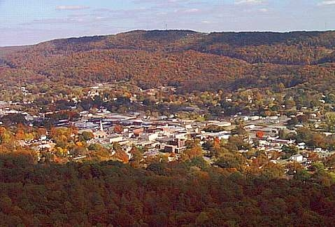 Aerial view of Fort Payne, Alabama, USA